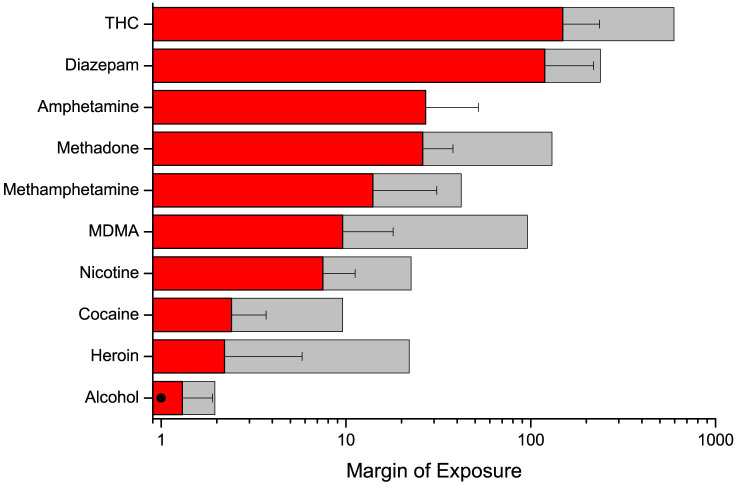 Compares the margin of exposure for numerous drugs for daily use.